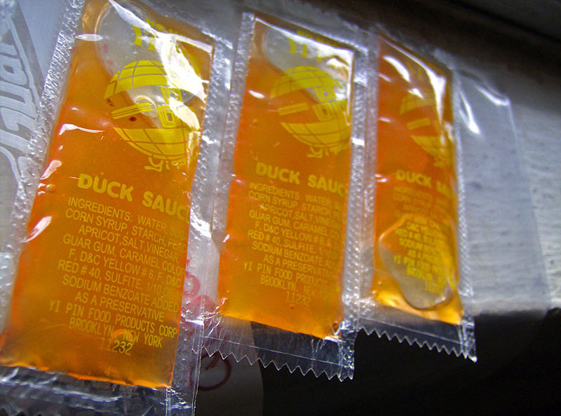 photo by --Plastik klinik 2007 placed under Creative Commons Attribution License as shown at